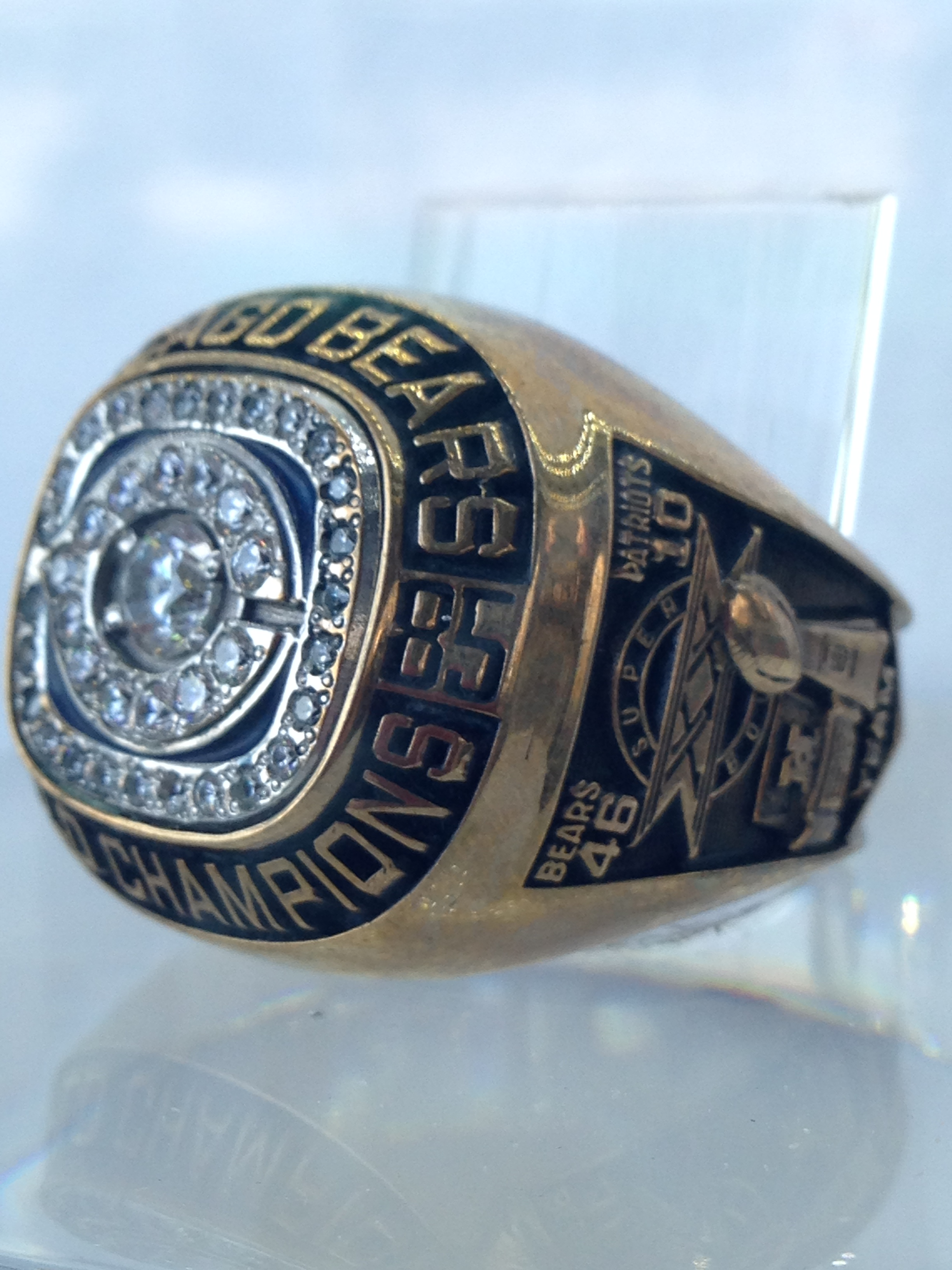 Draft Town, Chicago 5/2/2015